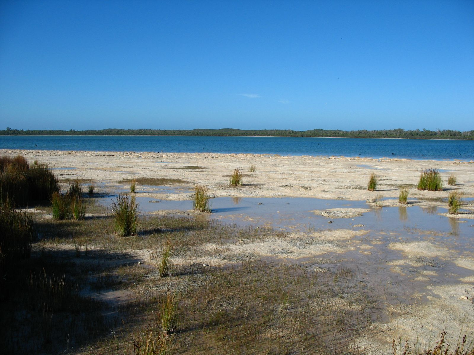 Stromatolites growing her in Yalgorup national park in Australia (there are also other stromatolithes in Shark Bay and in Western Australia. Stromatolites are "attached, lithified "sedimentary" growth structures, accretionary away from a point or limited surface of initiation."